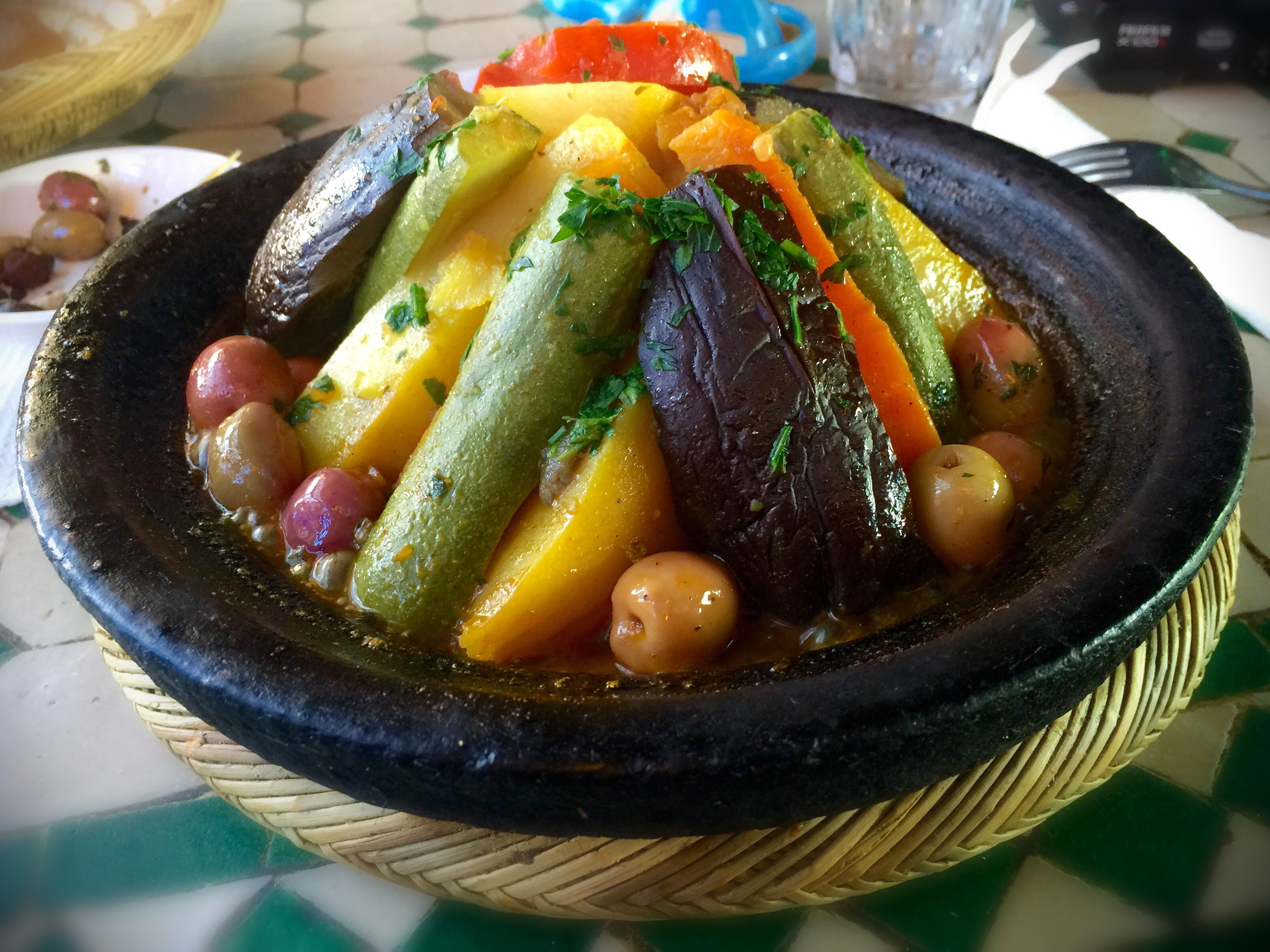 Vegetarian tagine from Chez Brahim in Marrakech, Morocco. This is an image of food from Morocco